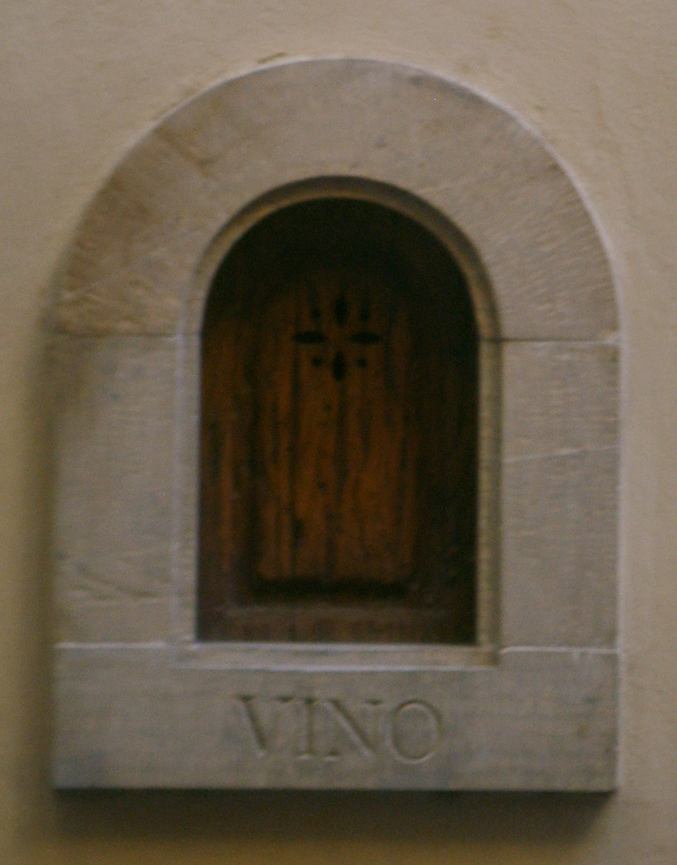 Palazzo Antinori wine window in Florence, italy